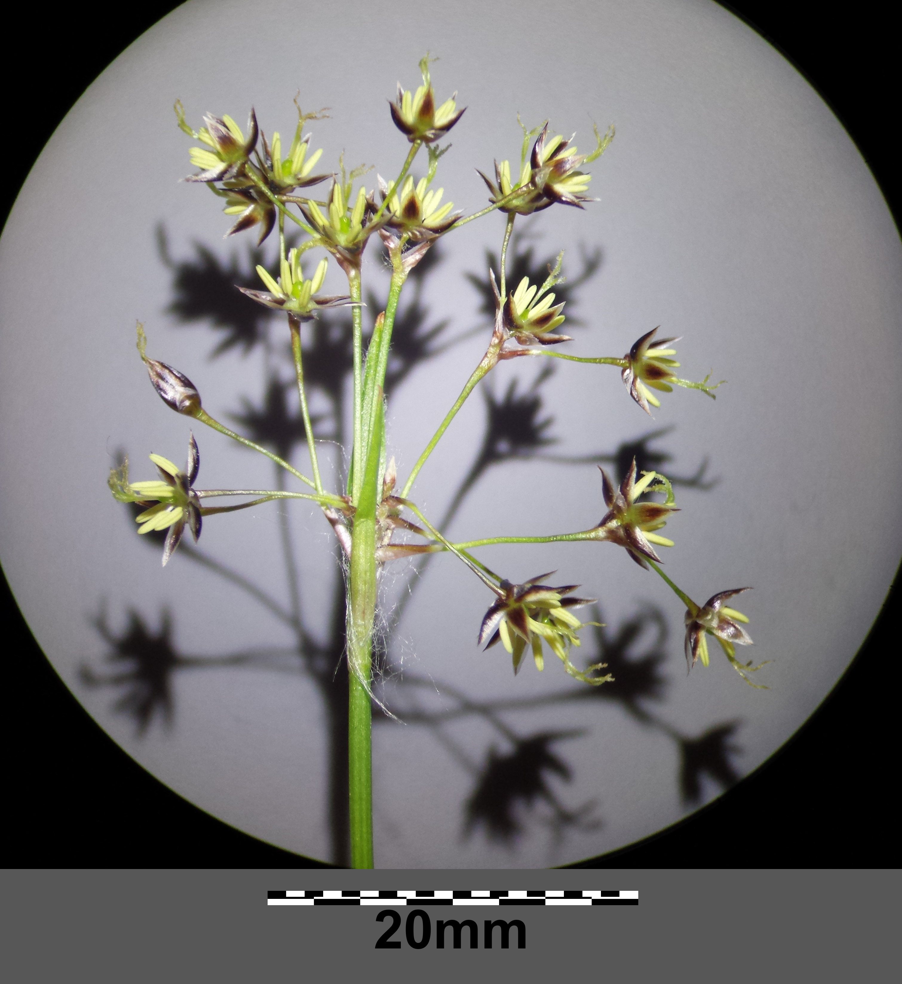 Inflorescence Taxonym: Luzula pilosa ss Fischer et al. EfÖLS 2008 ISBN 978-3-85474-187-9 Location: Kreuttal, district Mistelbach, Lower Austria - ca. 240 m a.s.l. Habitat: dedicious forest